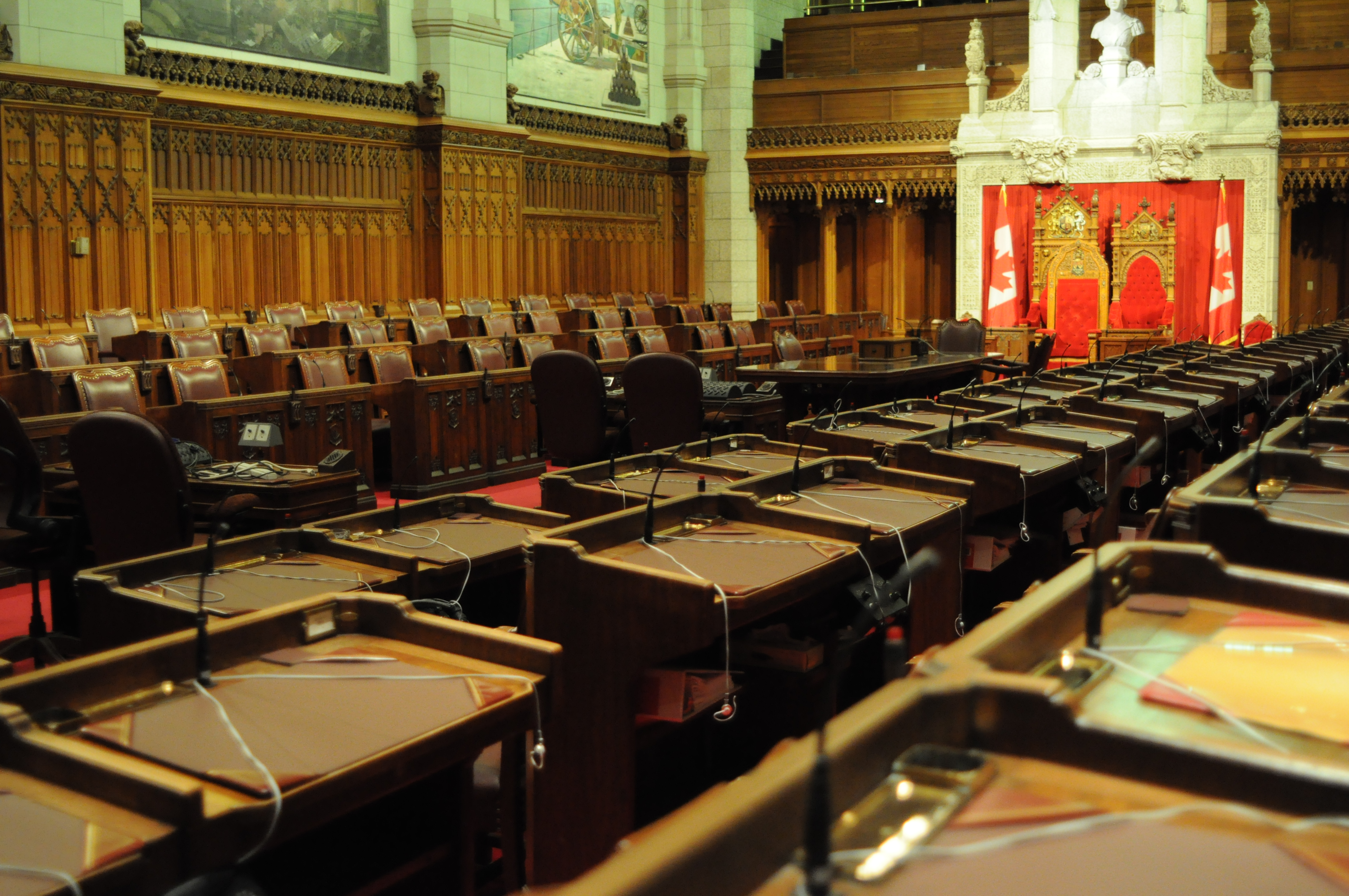 The Senate of Canada